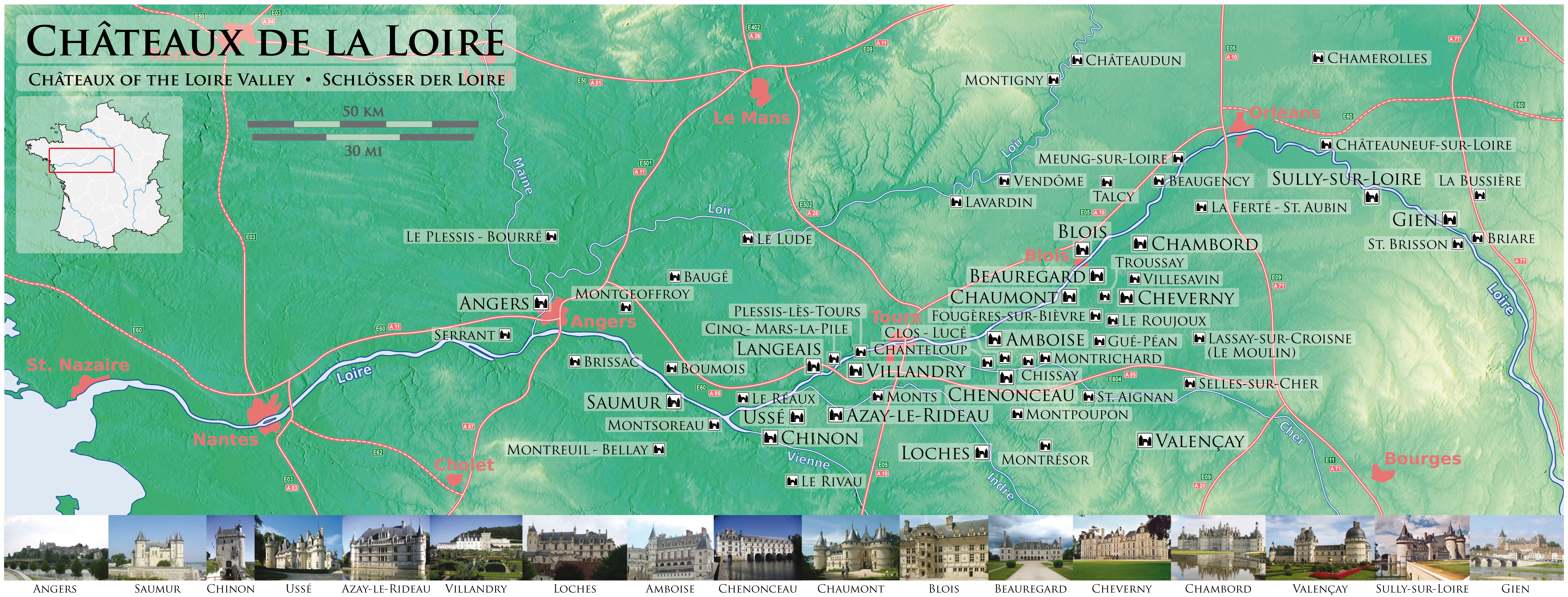 Châteaux of the Loire Valley